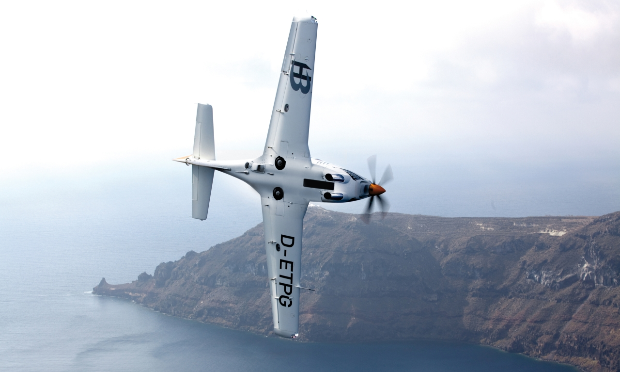 G 120TP during some flight maneuvers at Santorini/Greece